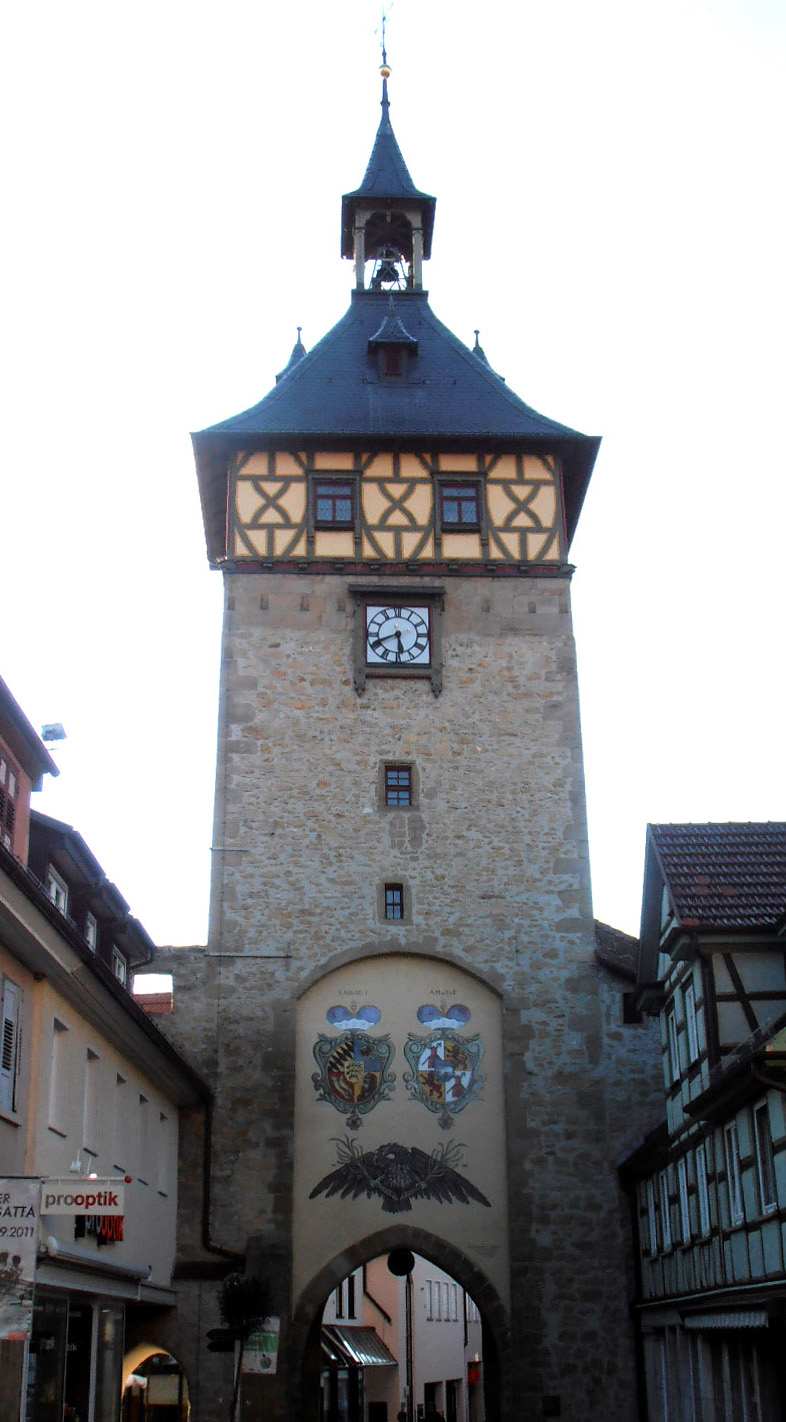 Marbach: Old city tower